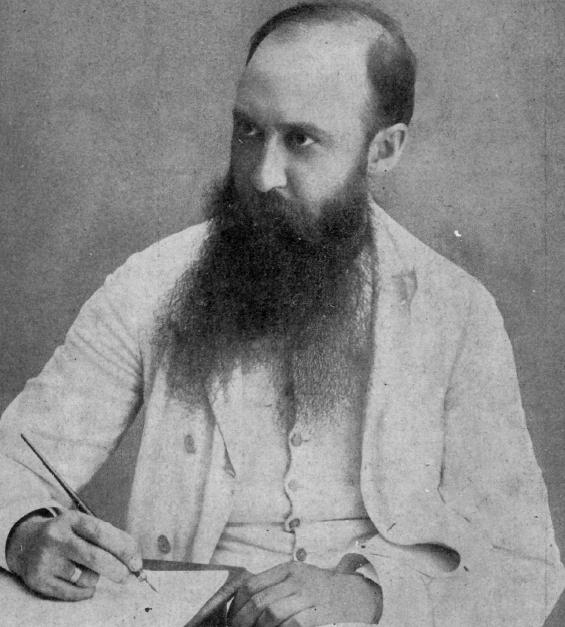 Photograph of the Romanian historian, politician, dramatist and memorist Nicolae Iorga, originally published in Luceafărul, 2/1914.